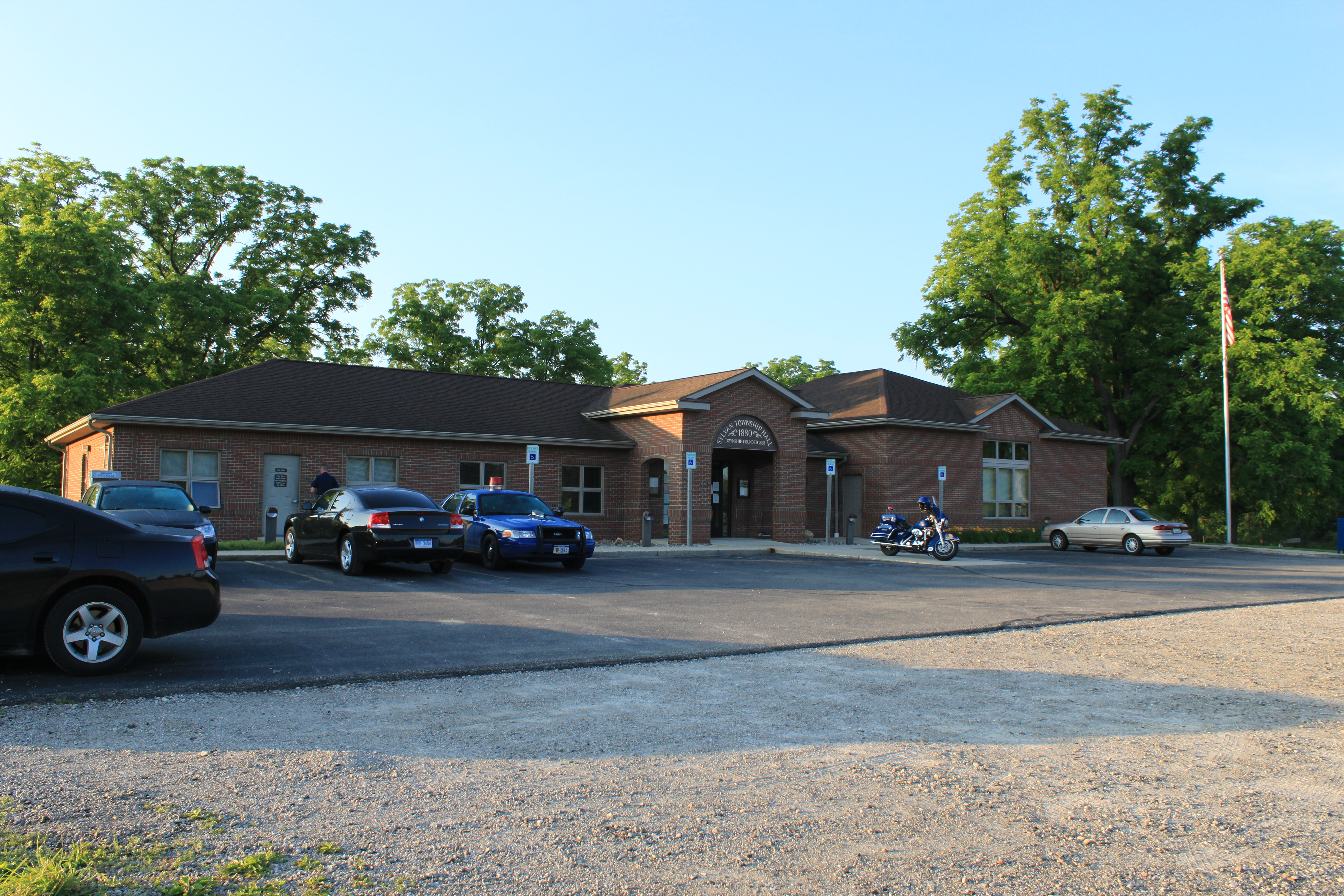 Sylvan Township Hall and Michigan State Police Post, Michigan